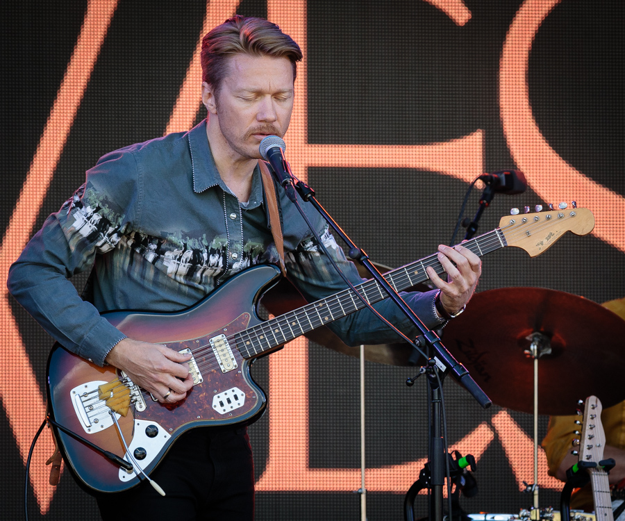 Tor Egil Kreken with Darling West at the Vigeland stage in the Vigeland Park. The concert was part of Piknik i Parken and took place on 16. June 2018 in Oslo. Lineup:Tor Egil Kreken (guitar)Mari Kreken (guitar and vocal)Unidentified (keyboard)Unidentified (drums)